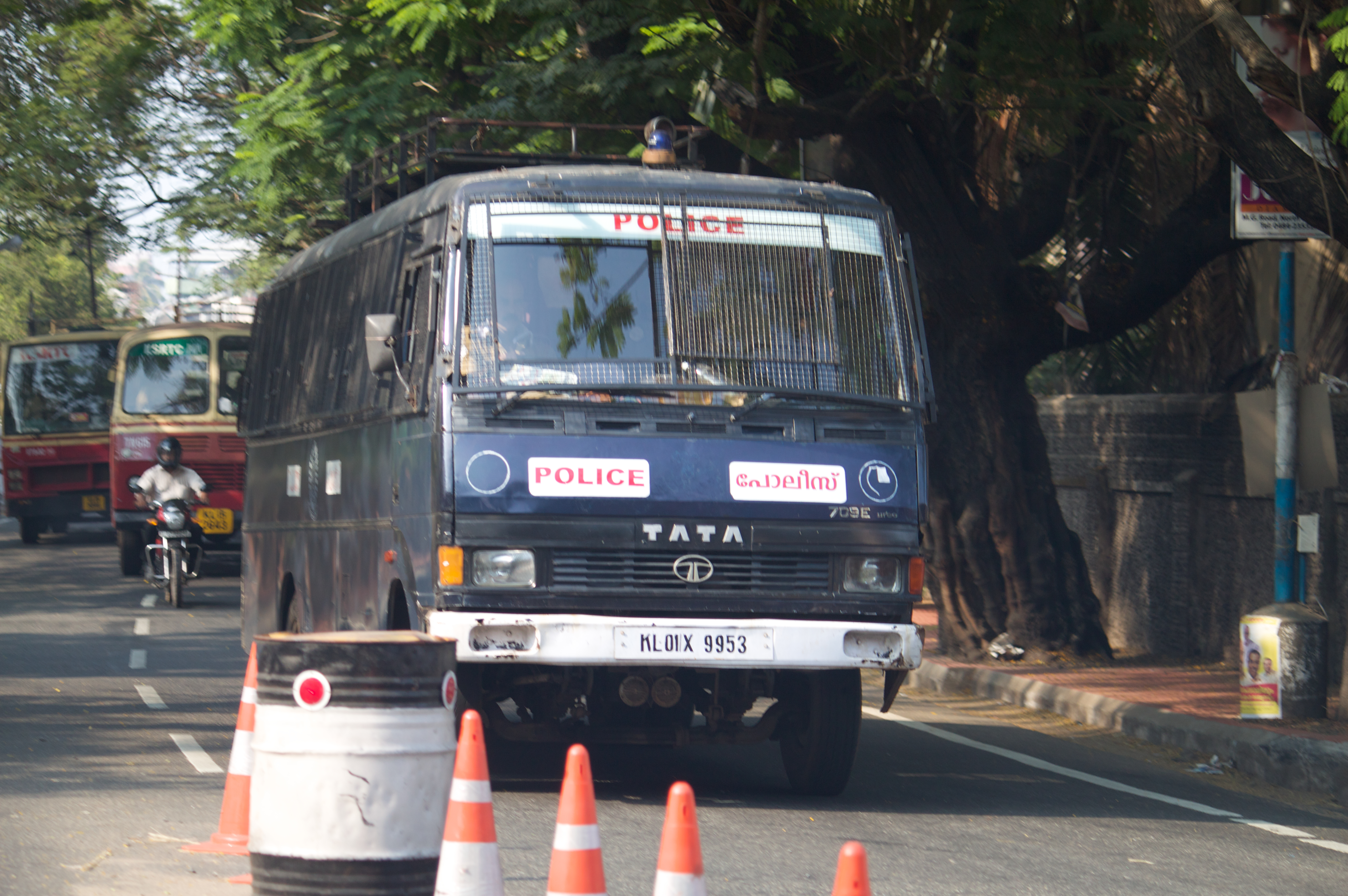 Kerala police vehicle in Kochi